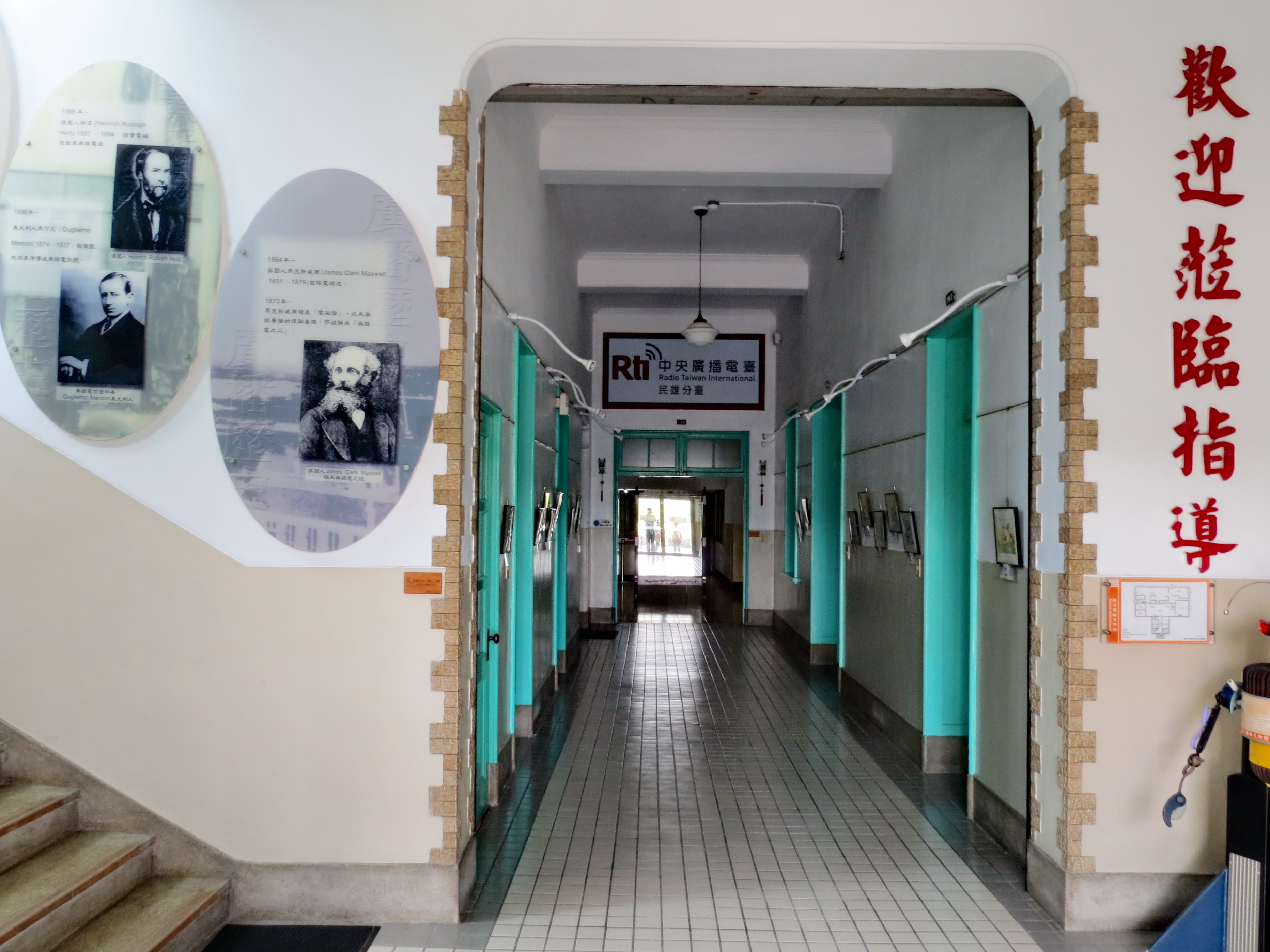 Main floor hallway of the National Radio Museum, Minxiong, Chiayi, Taiwan.